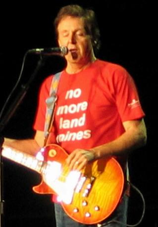 Paul McCartney in Prague, Czech Republic, 2004.